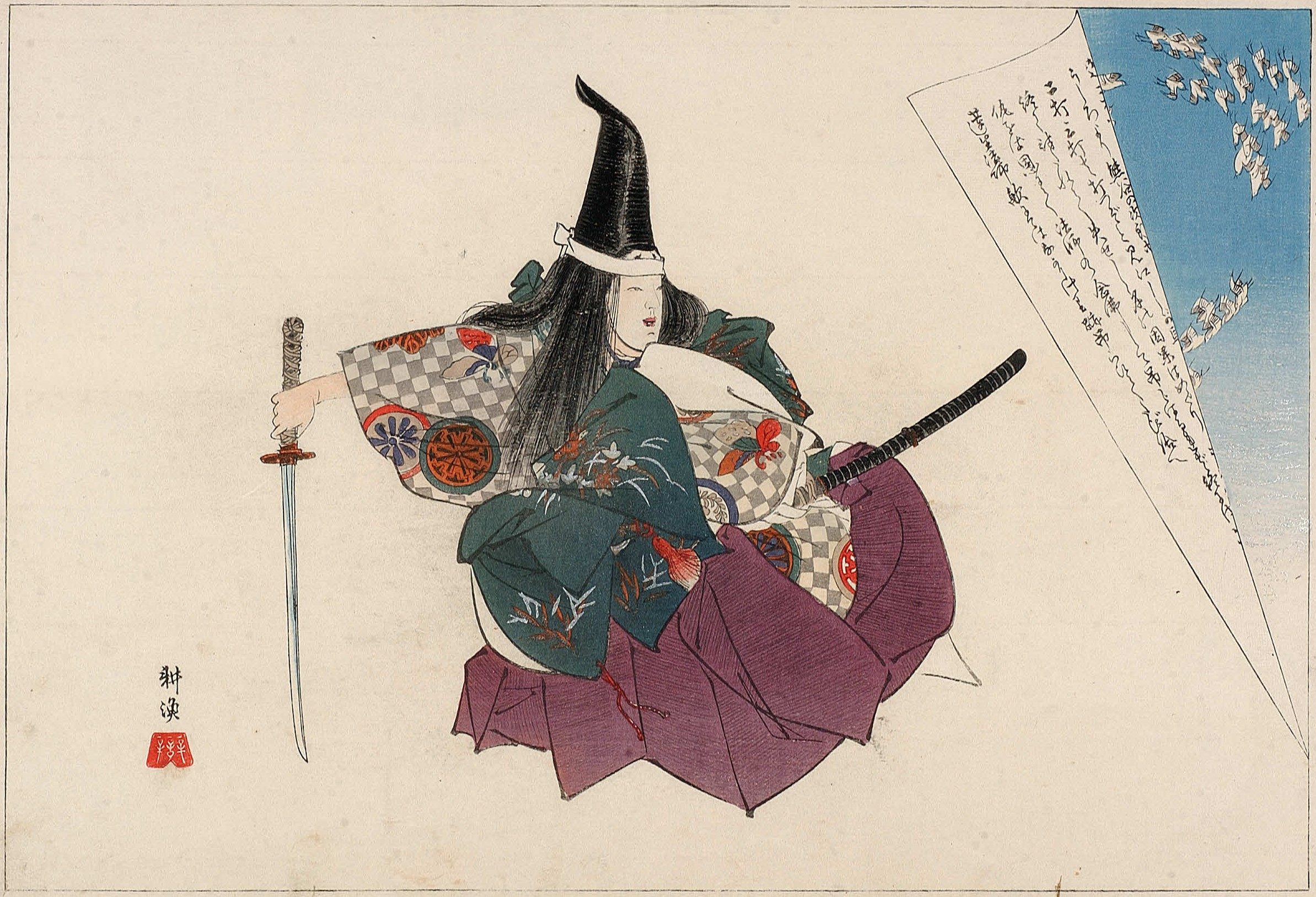 Scene from Nô-drama "Atsumori"